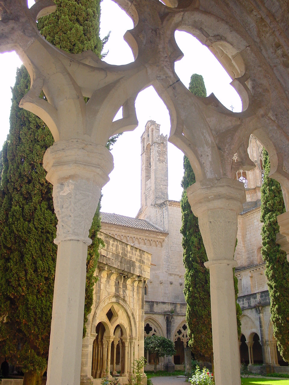 Claustro del monasterio de Poblet (Tarragona). Cloister in the monastery of Poblet (Tarragona).